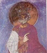 Icon of David in Veljusa Monastery